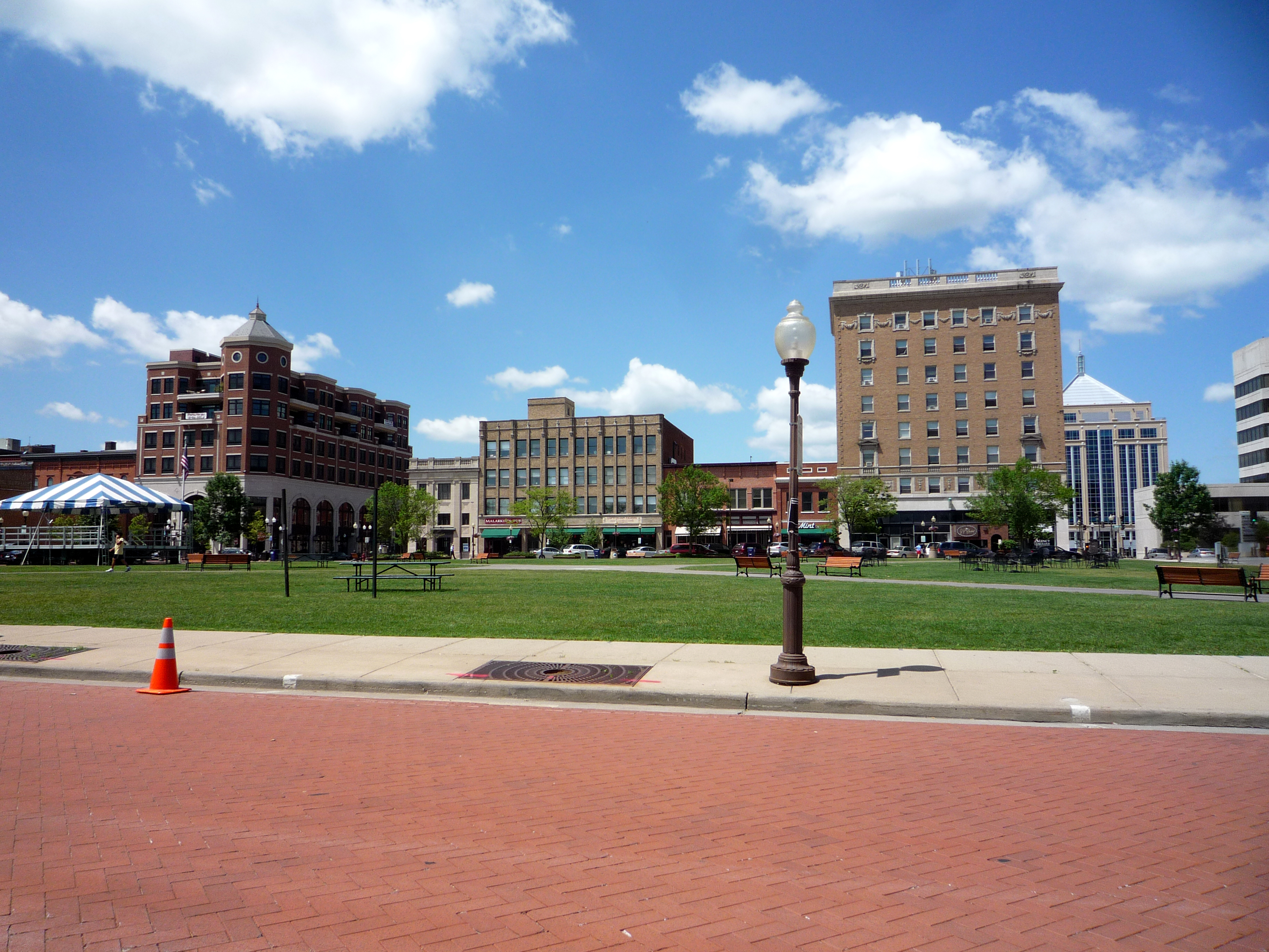 The "400 Block", a large plaza/park in downtown Wausau, Wisconsin, USA.